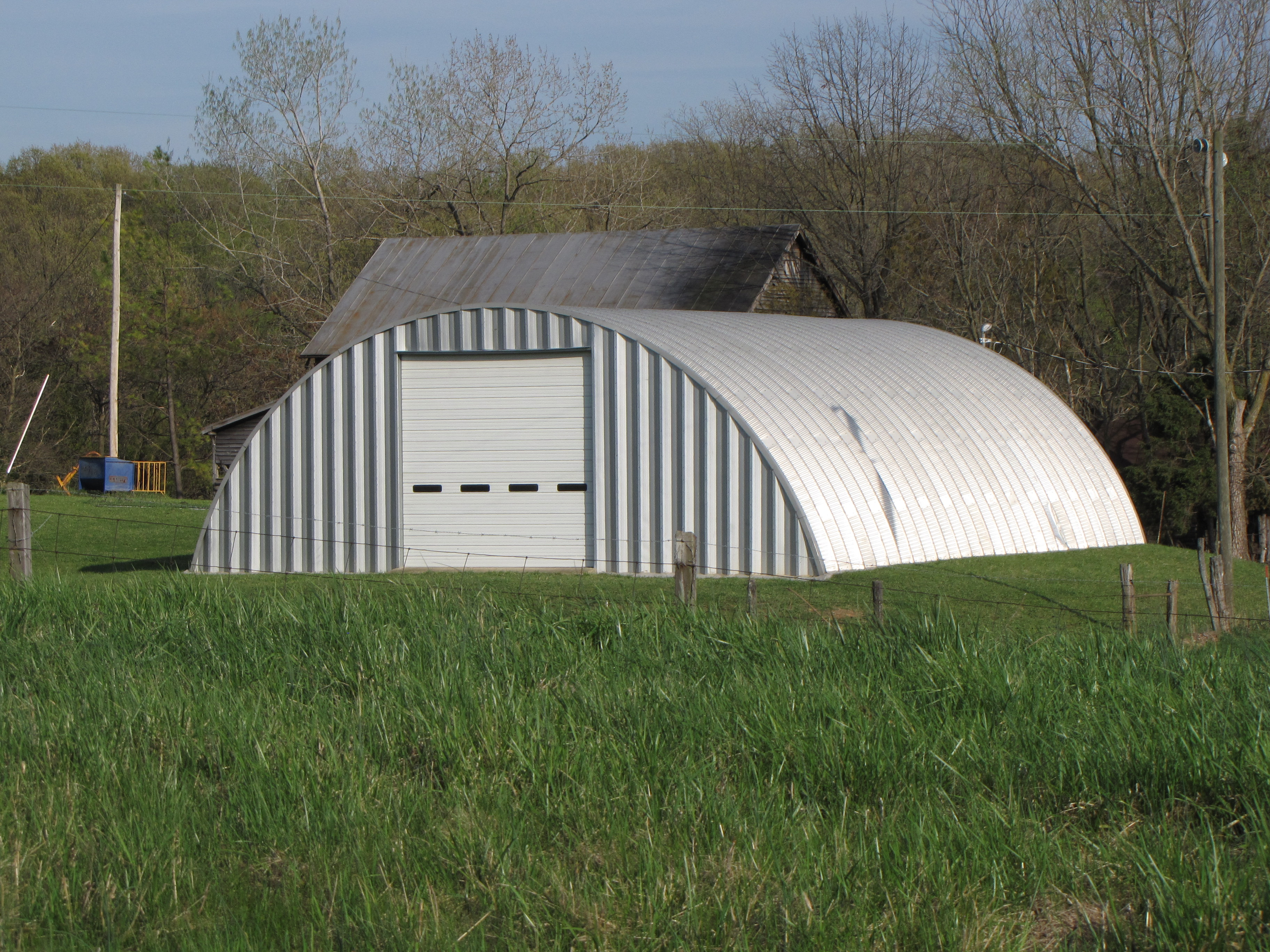 A small building made out of corrugated steel in Shenandoah County, Virginia.